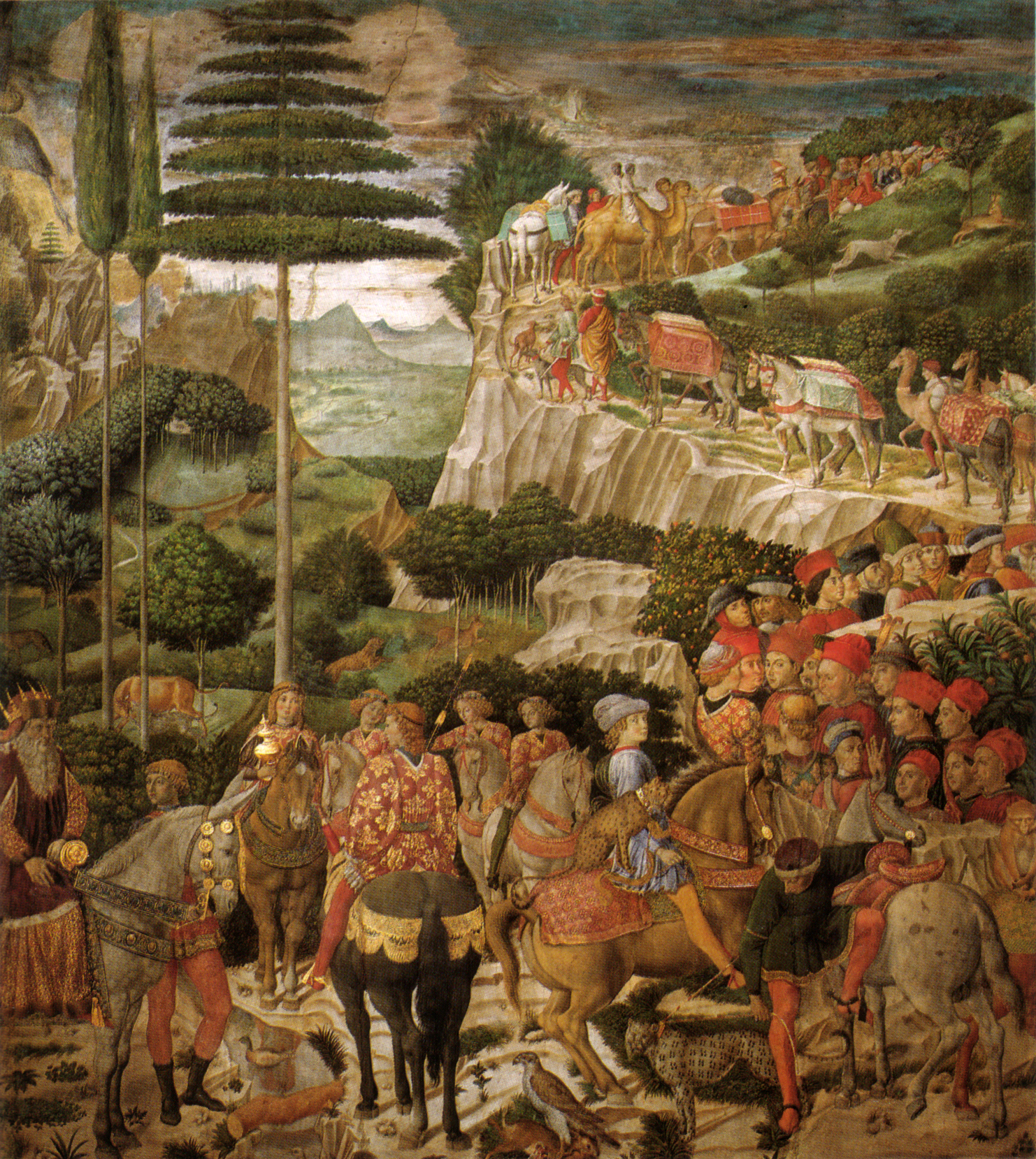 The Procession of the Three Wise Men, with Giuliano de' Medici and Joseph, Patriarch of Constantinople. Fresco by Benozzo Gozzoli, in the "Cappella dei Magi", at Palazzo Medici Riccardi in Florence, Italy.